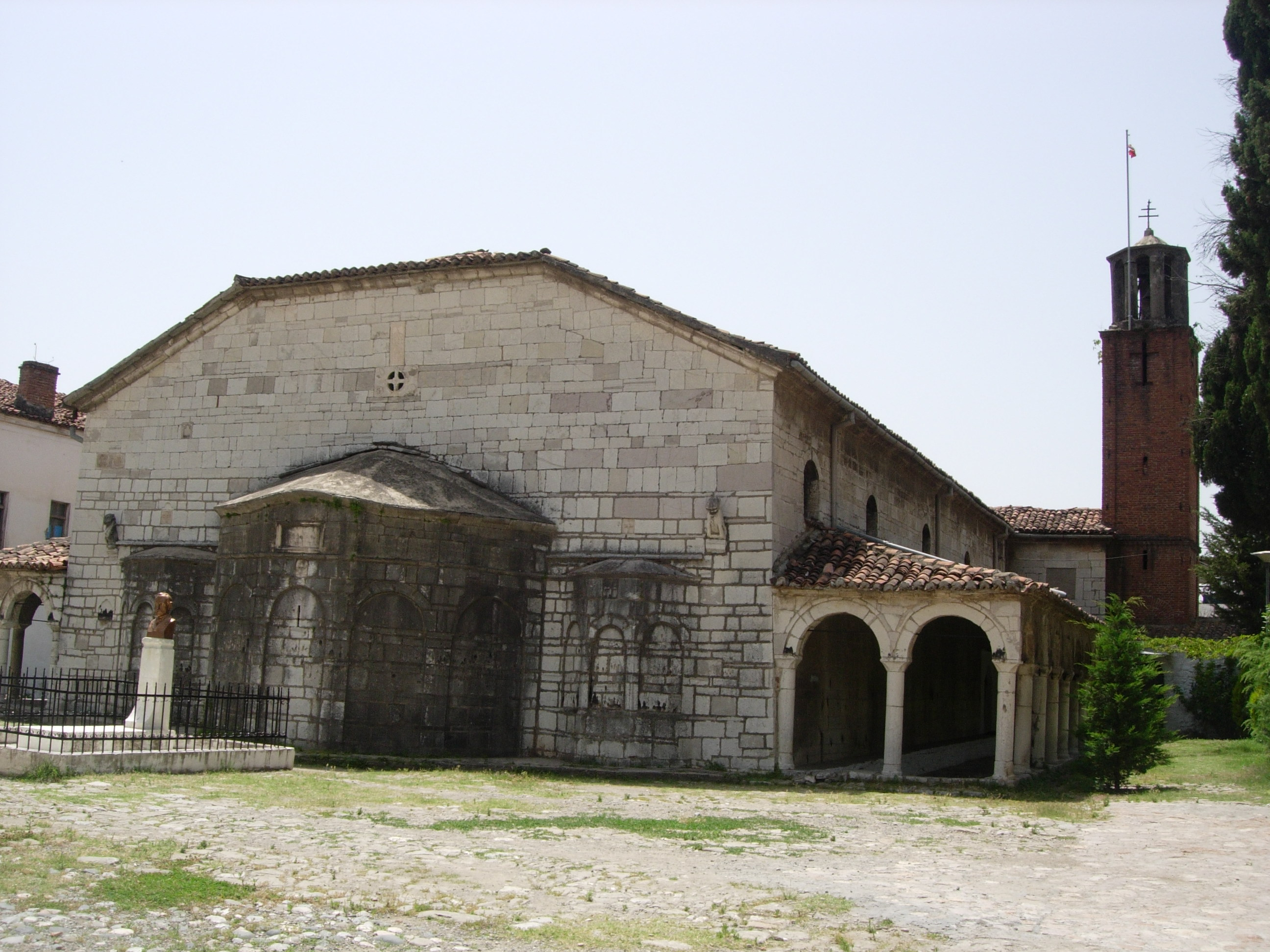 Elbasan, Albania, St Mary's Church